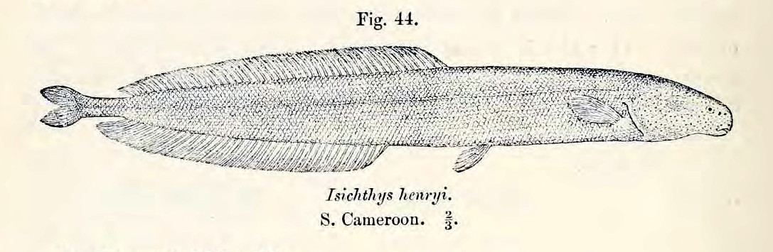 Isichthys henryi Gill, 1863